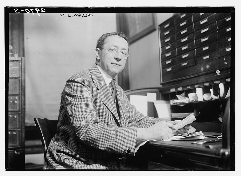 Bain News Service,, publisher. T.L. Masson [between ca. 1910 and ca. 1915] 1 negative : glass ; 5 x 7 in. or smaller. Notes: Title from unverified data provided by the Bain News Service on the negatives or caption cards. Forms part of: George Grantham Bain Collection (Library of Congress). Format: Glass negatives. Repository: Library of Congress, Prints and Photographs Division, Washington, D.C. 20540 USA, General information about the Bain Collection is available at Persistent URL: Call Number: LC-B2- 2970-3